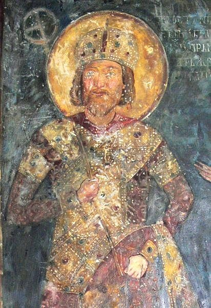 From the National Historical Museum, Sofia, Bulgaria